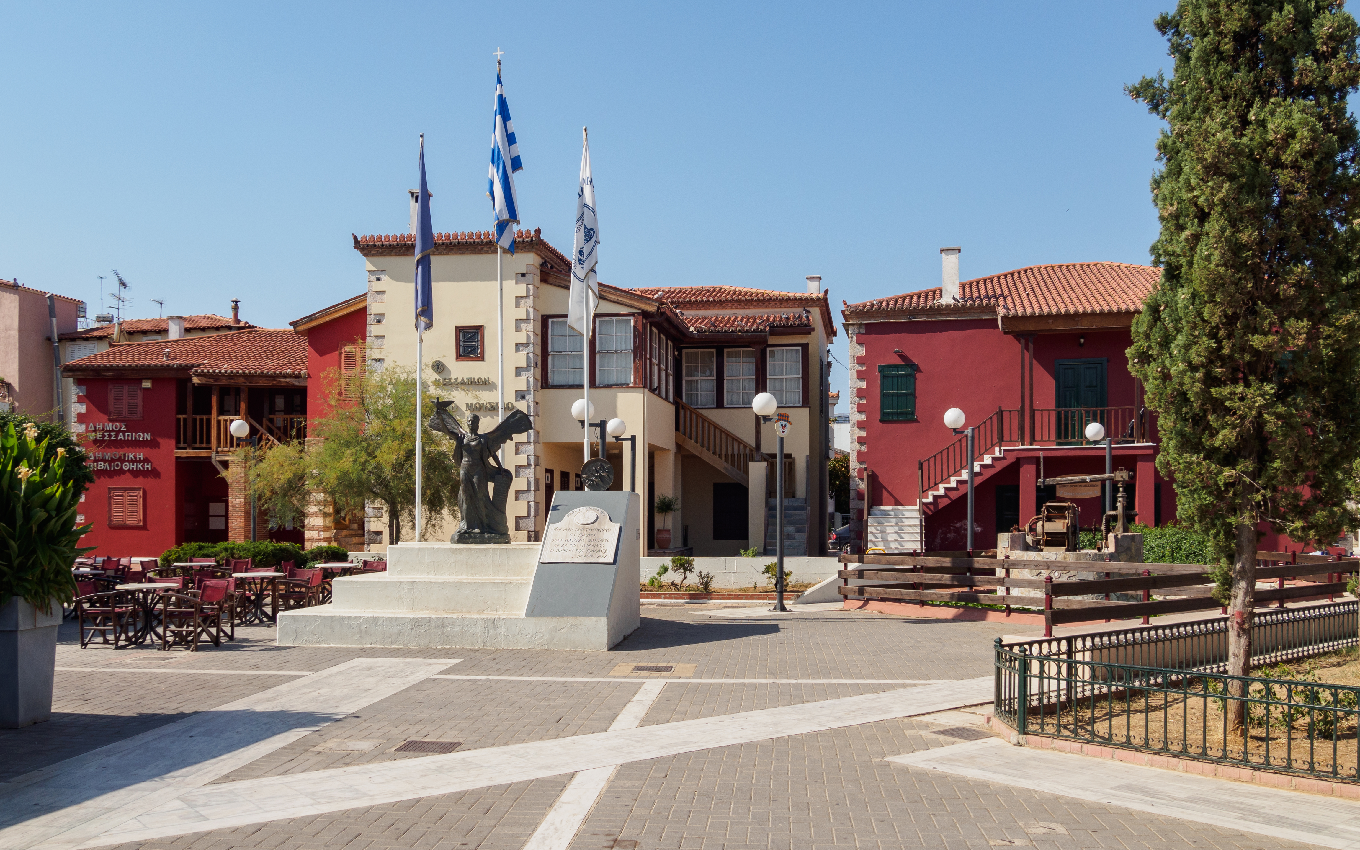 The central square of Psachna, with the characterist buildings at its north side hosted the municipal library, the folklore museum and municipal philarmonic.